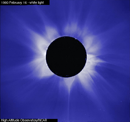 Image taken by High Altitude Observatory of Boulder, Colorado during solar maximum. It shows many streamers located at all azimuths around the occulted disk of the Sun.